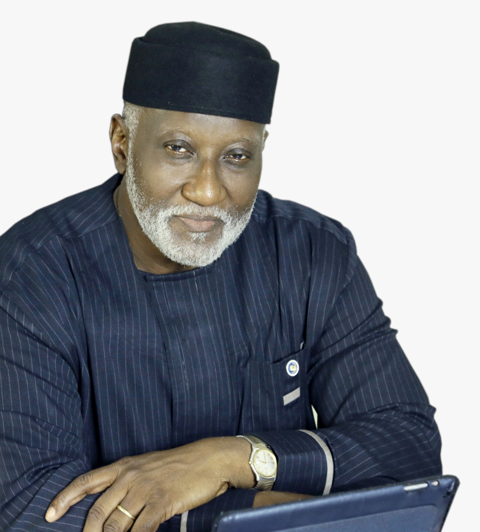 Henry Obaze Oseloka diplomat, international civil servant, policy analyst and CEO Selonnes Consult. Former United Nations diplomat, Secretary to the State Government of Anambra State and current Governorship Aspirant under Peoples Democratic Party PDP